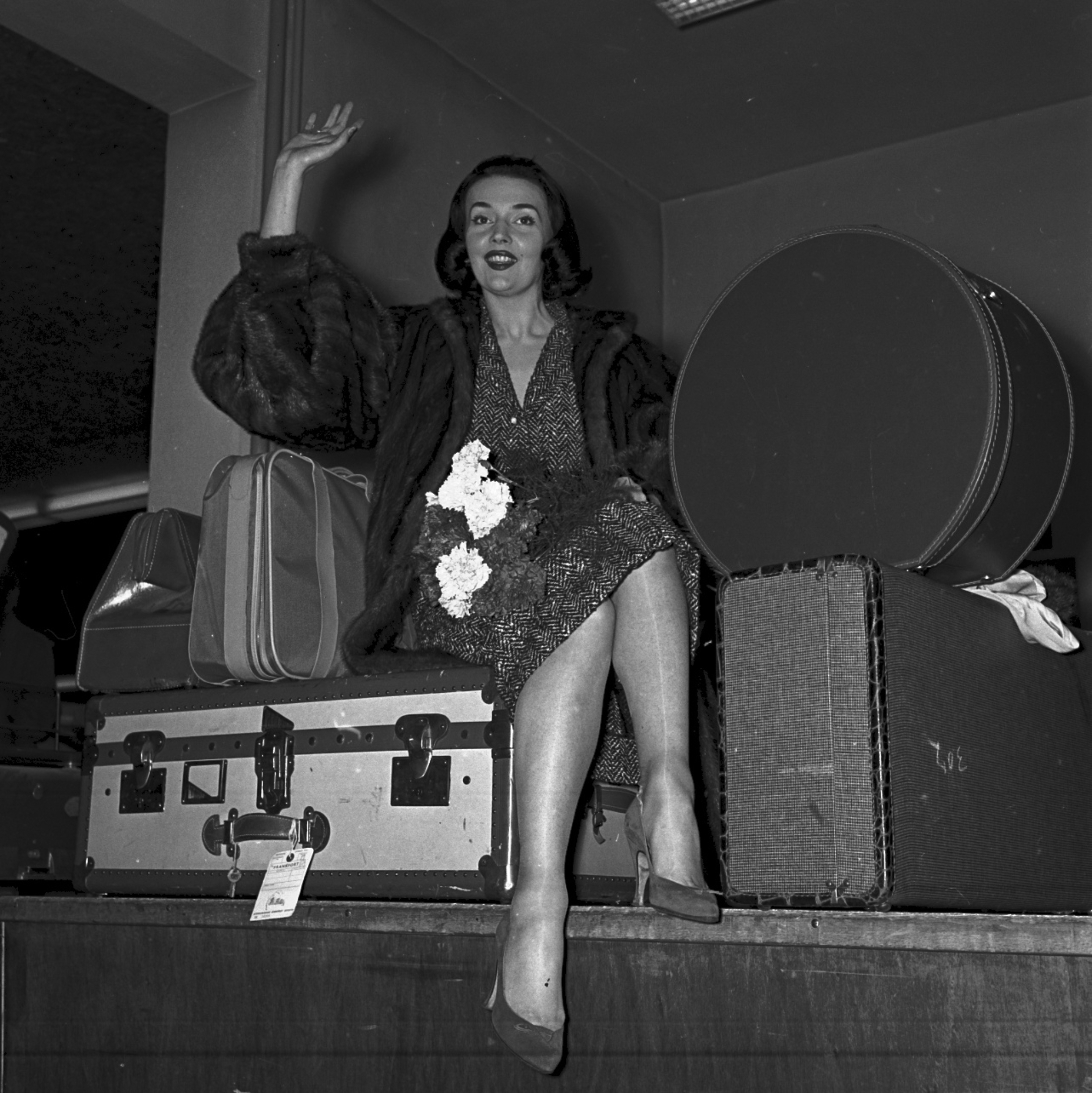 The french dancer and actor Ludmilla Tchérina in 1955 at Frankfurt airport on a promotion tour for her movie "Fledermaus"